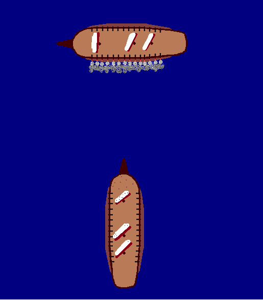 Raking fire